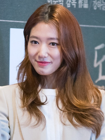 Park Shin Hye at the 'DongJu: The Portrait of A Poet' Movie Premiere on February 04, 2016